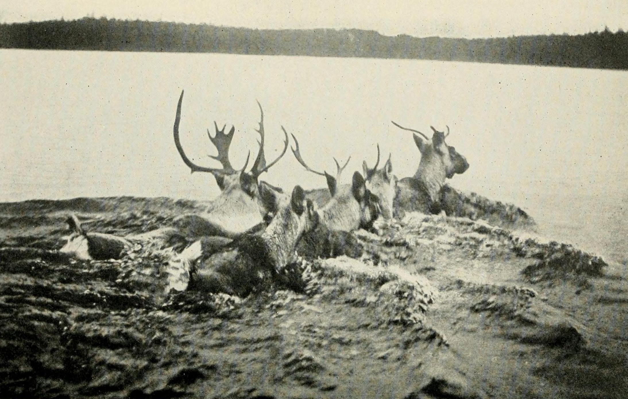 Captioned "Alaska caribou swimming" The animals' shoulders are so high the uploader suspects they are still running on the river bottom. They are just heading out and judging by the waves they are making, in a hurry, probably spooked by the photographer. A 1950s postcard used this photo and captioned it "Caribou swimming the Yukon River" [1]